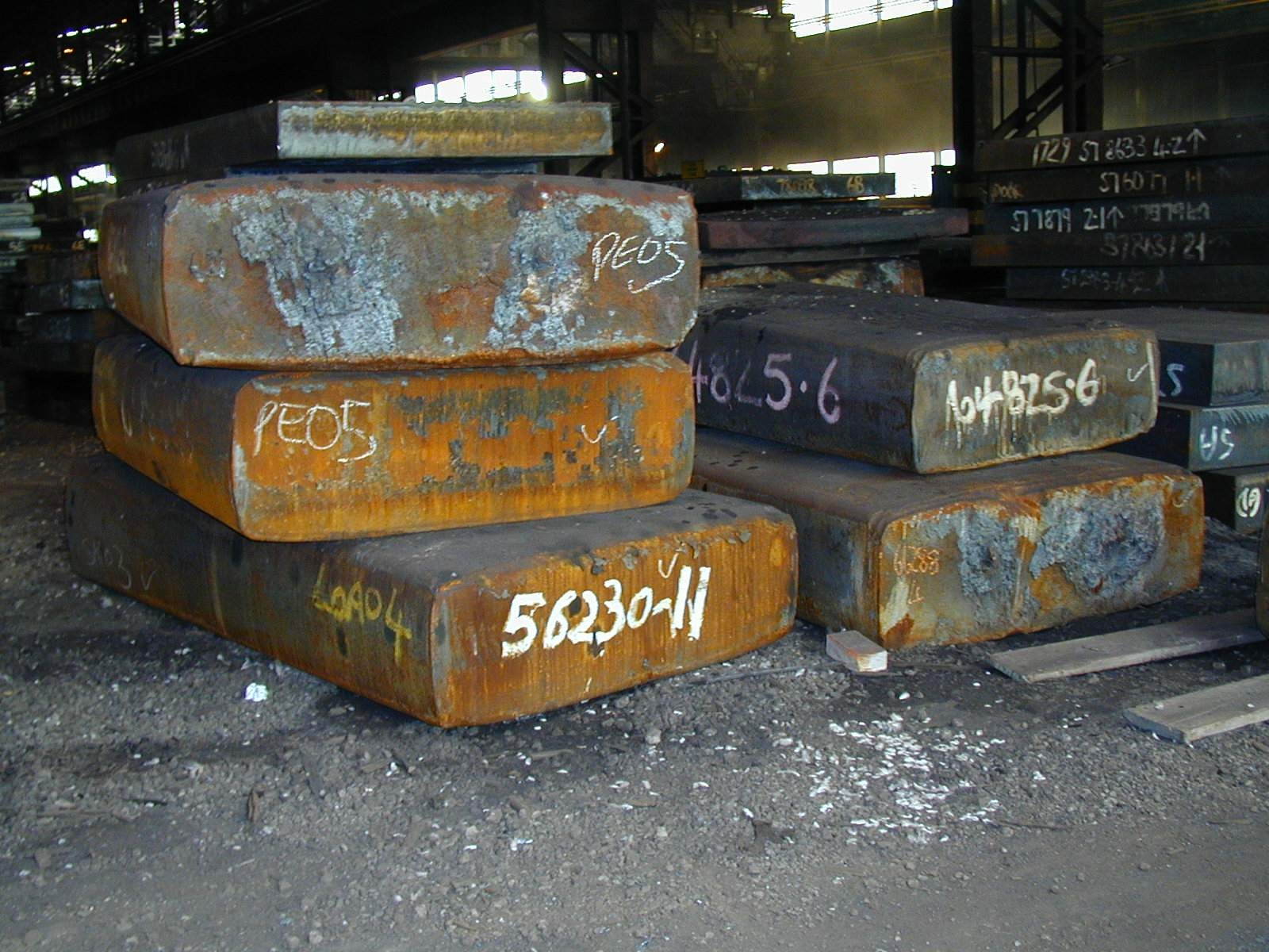 Stack of ingots and slabs of iron